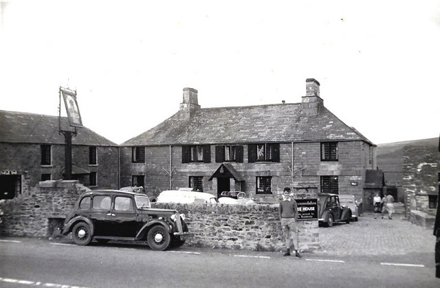 Jamaica Inn, Bodmin Moor As it was in 1959, long before the A30 was upgraded.